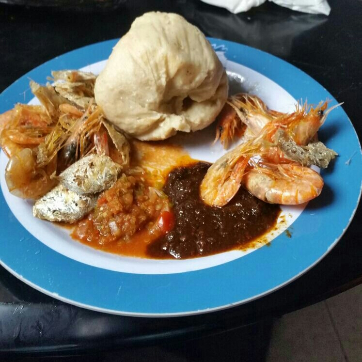 Ga K)mi This is an image of food from Ghana